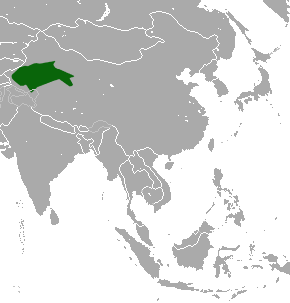 Yarkand Hare (Lepus yarkandensis) range